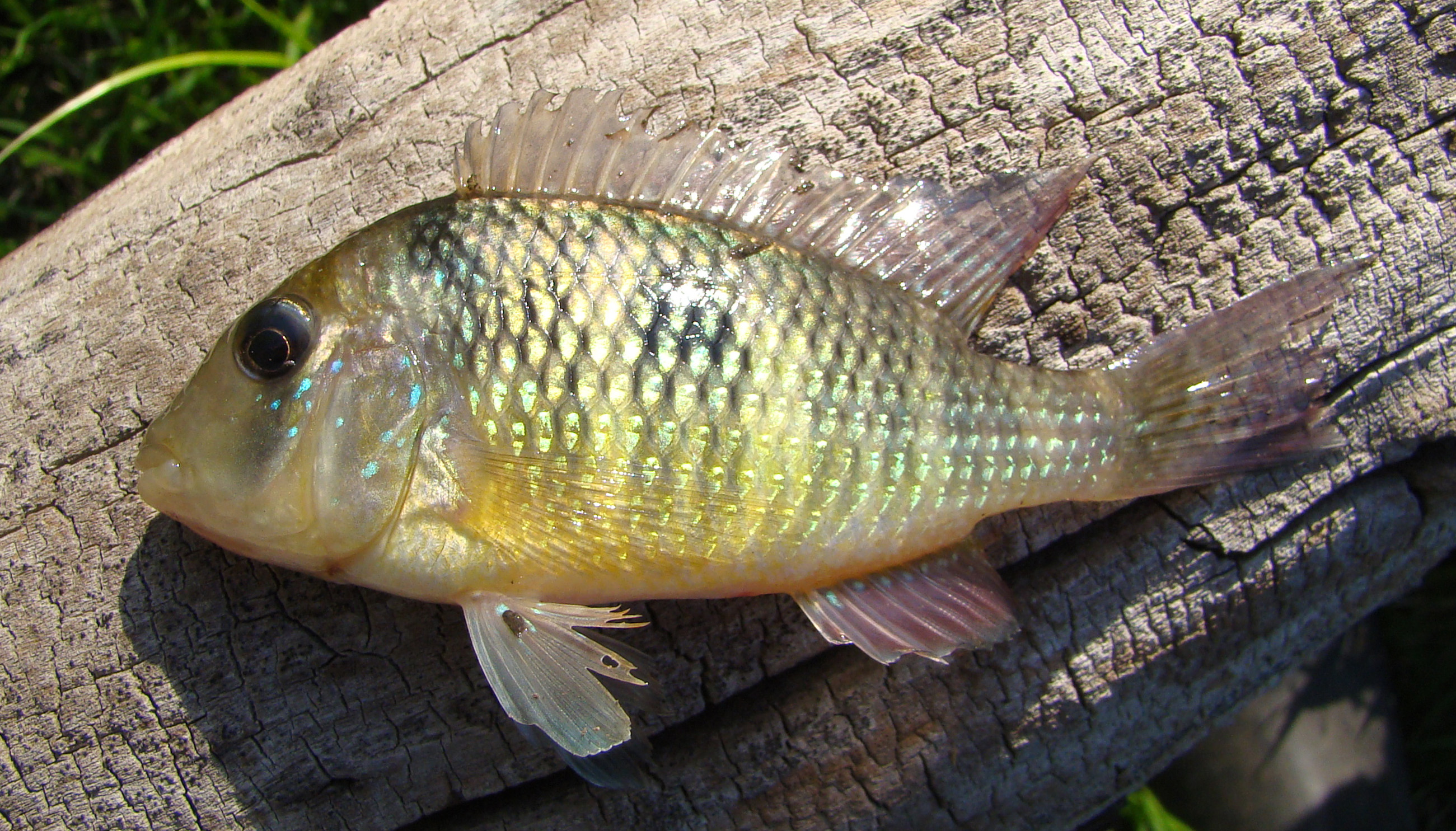 Gymnogeophagus mekinos from Tacuarembó River, Uruguay, photographed in February 2009.